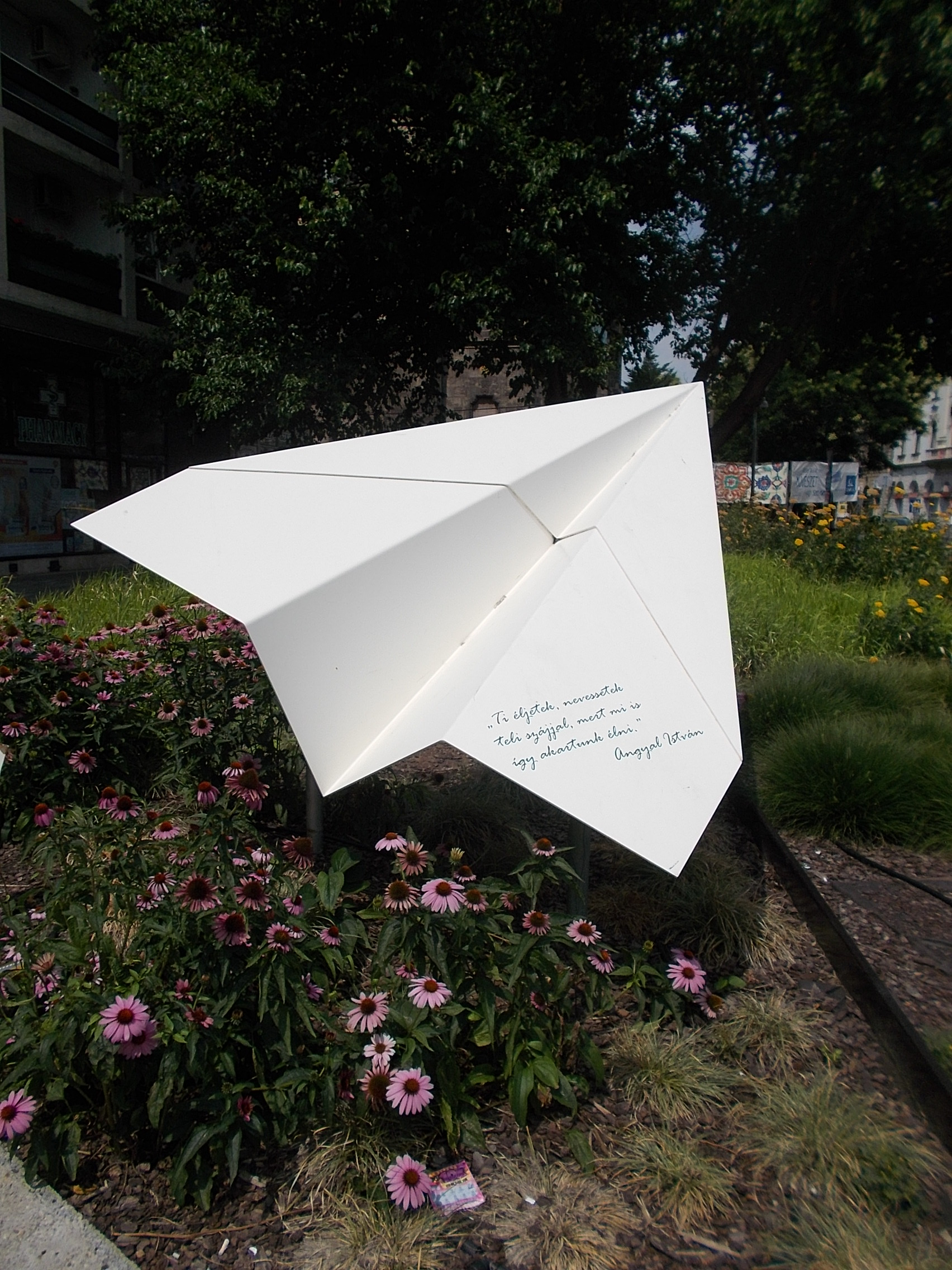 István Angyal Monument. - Üllői Avenue, Ferencváros district, Budapest, Hungary.